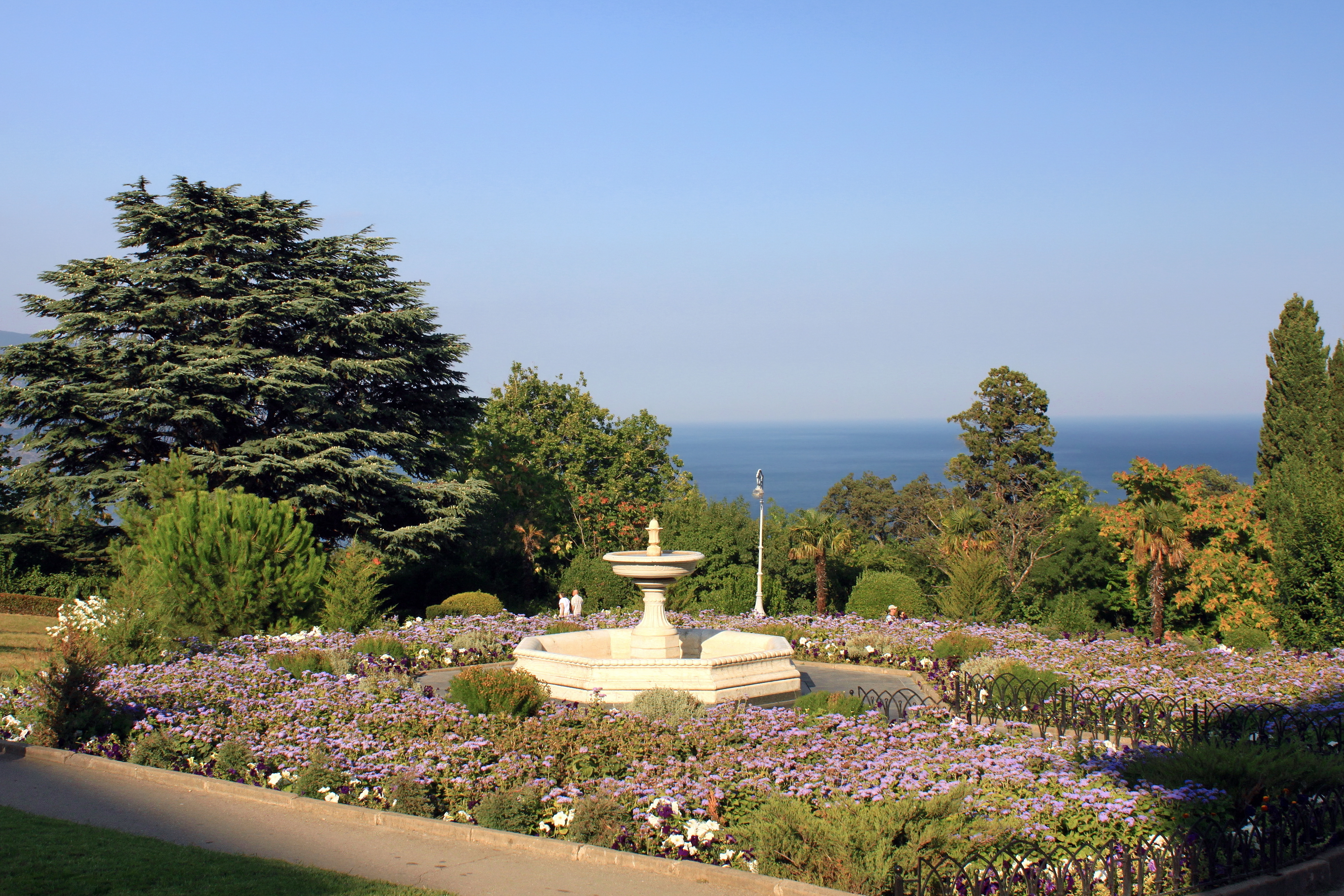 Park of Livadiya Palace. Livadiya, Crimea.